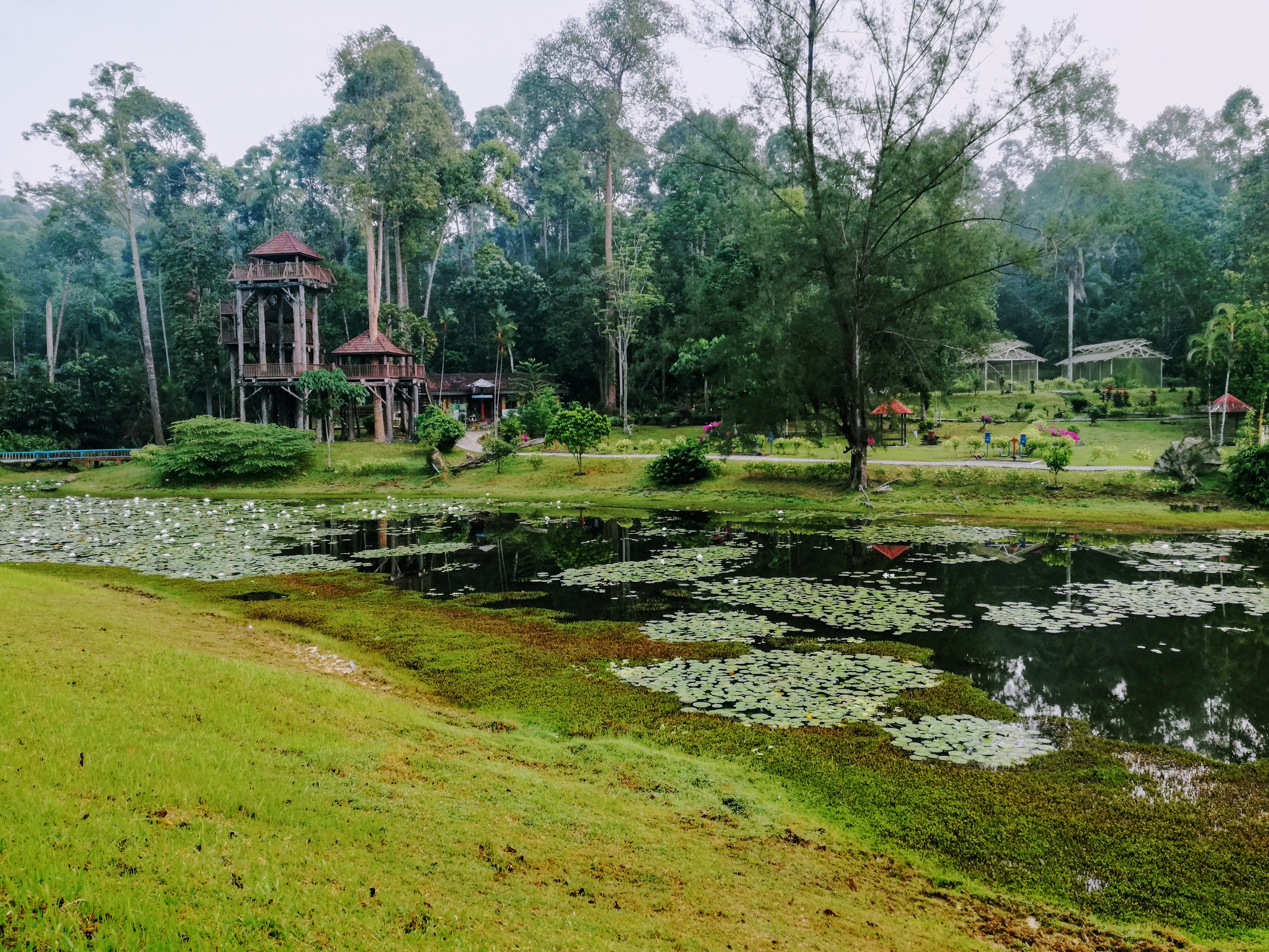 This viewing tower is next to Herbs & Medicinal Garden, National Botanic Gardens Shah Alam. From the tower, visitors could see the Ornamental Garden and the arranged landscape. The tower is built with wood, cement and support by living tree.